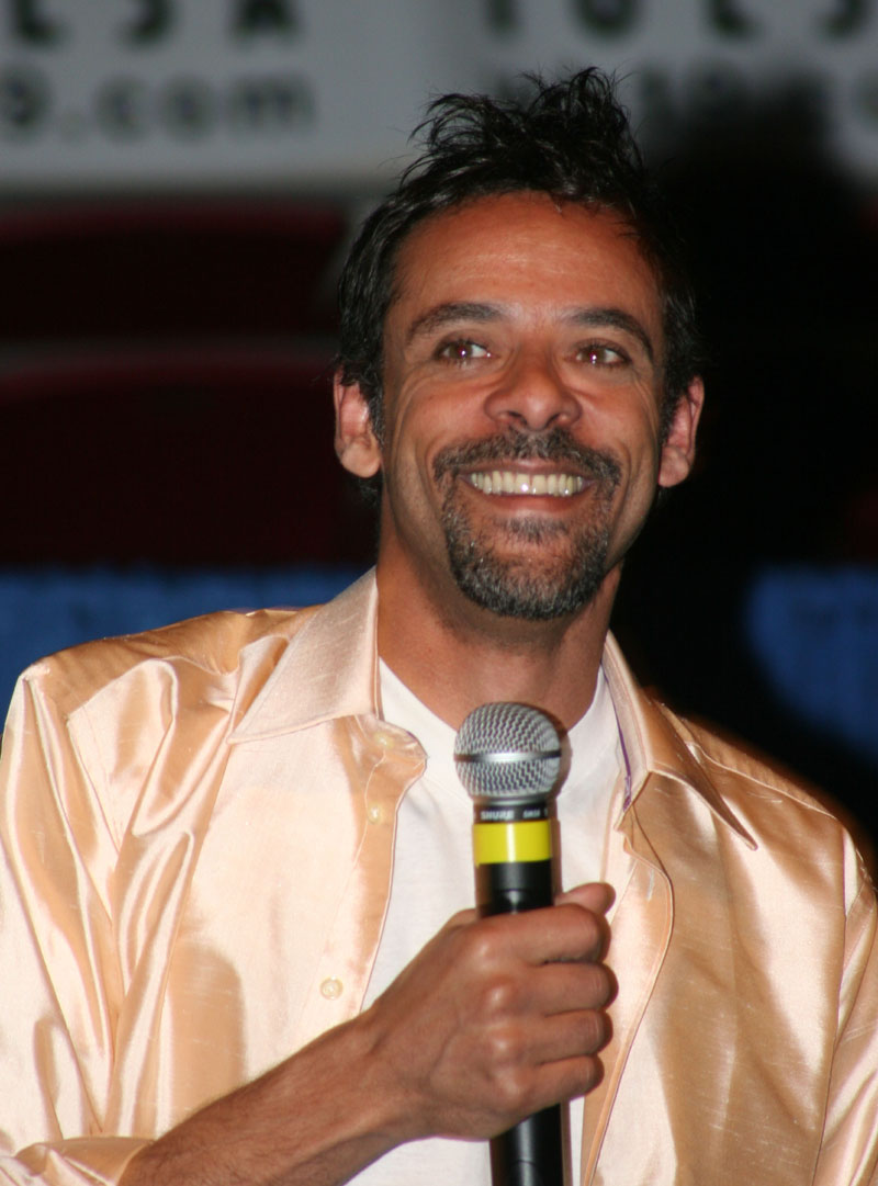 Alexander Siddig. Taken June 25, 2005, at TrekExpo in Tulsa, Oklahoma, USA. Photo by JoBeth Taylor.